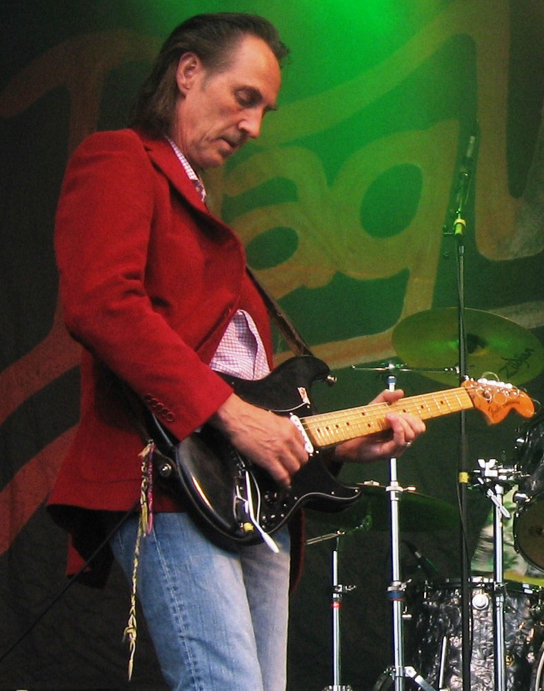 Kenny Håkansson (born 1945), Swedish guitar player {1 }